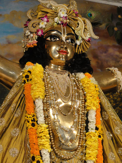 Murti of Chaitanya Mahaprabhu, ISKCON Mayapur